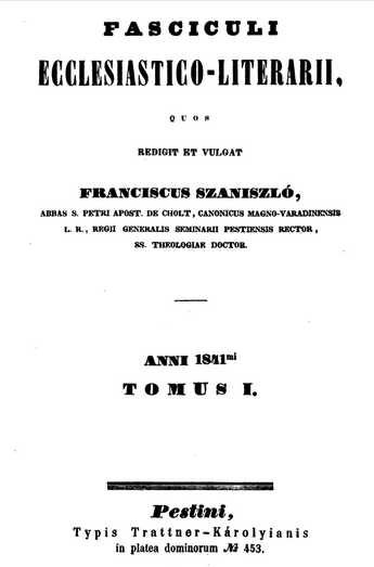 Title page of Fasciculi Ecdesiastico-Literarii